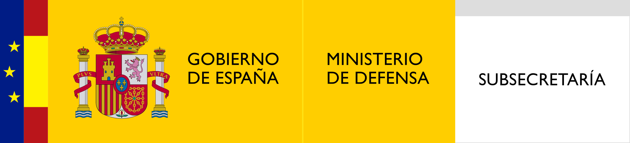 Logo of the Undersecretariat of Defence of Spain